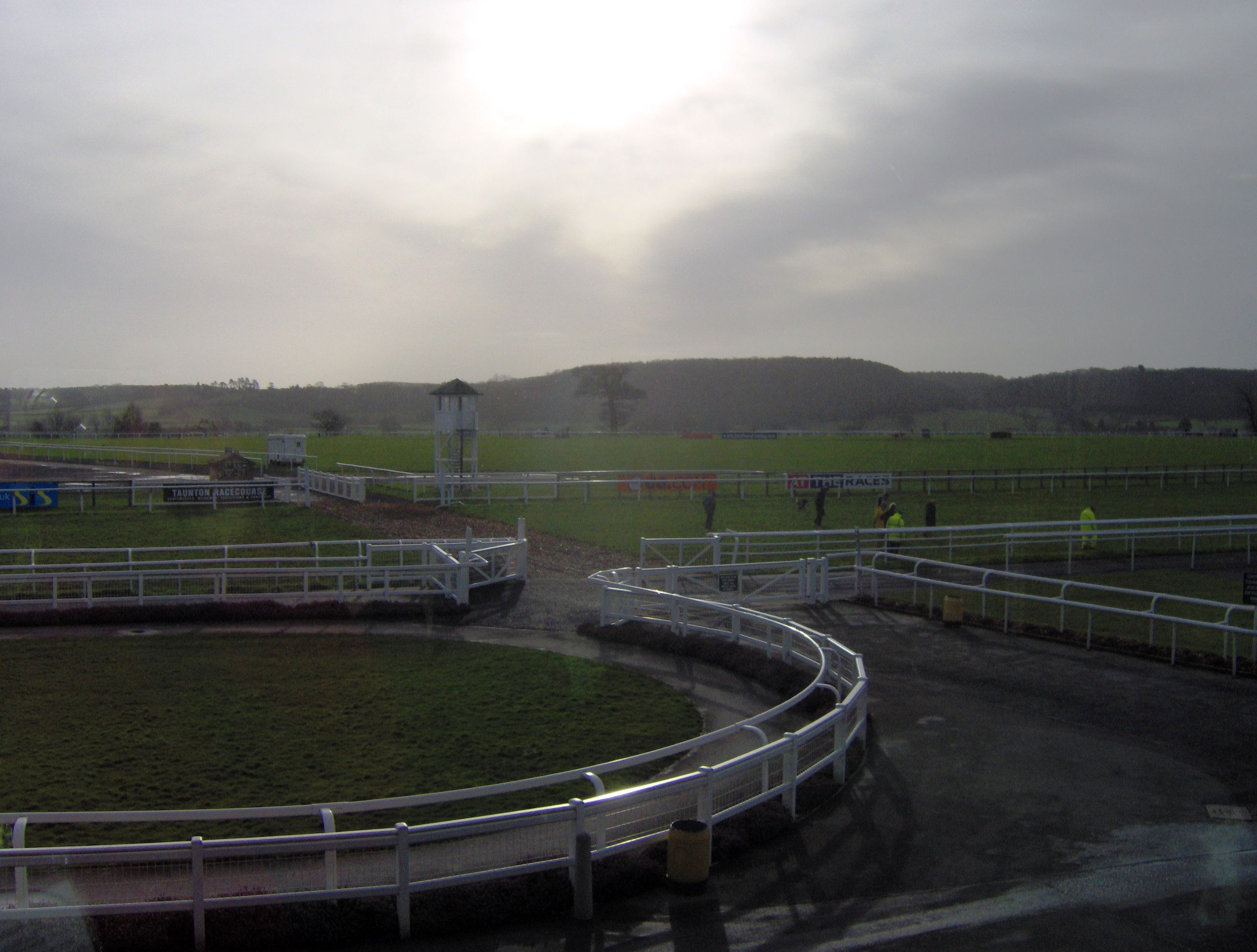 Taunton racecourse with the Blackdown hills in the background.